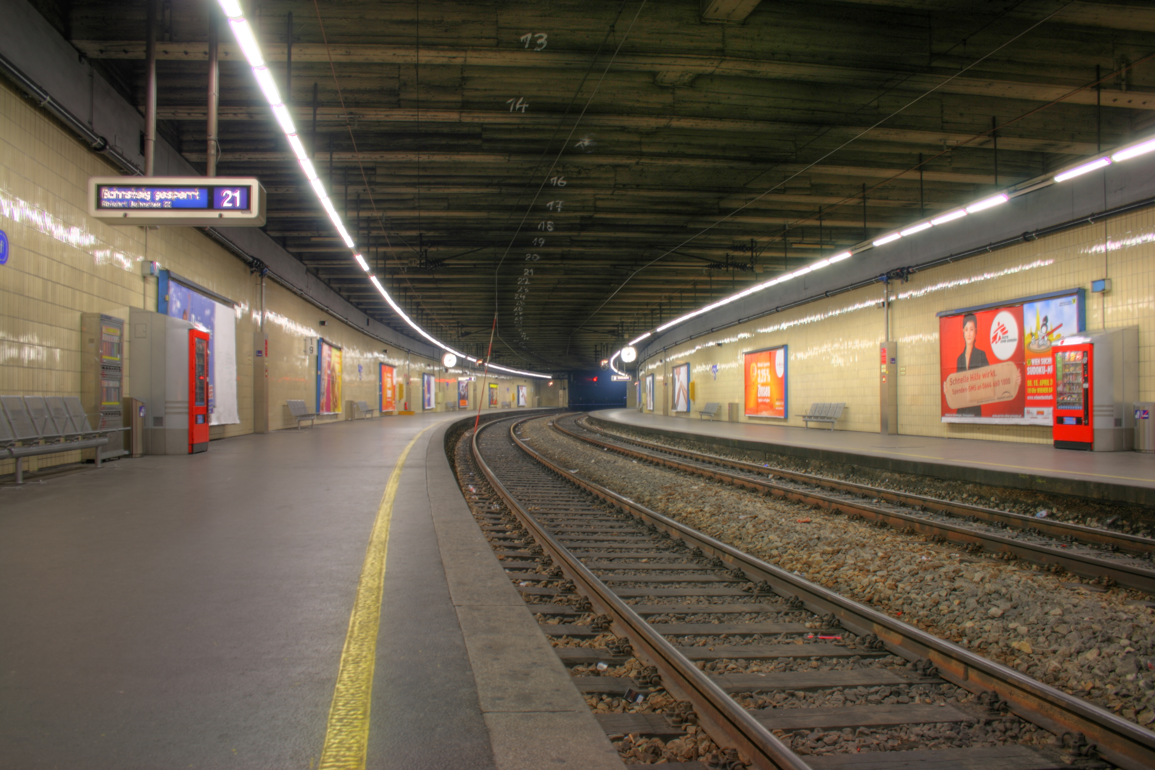 Track21